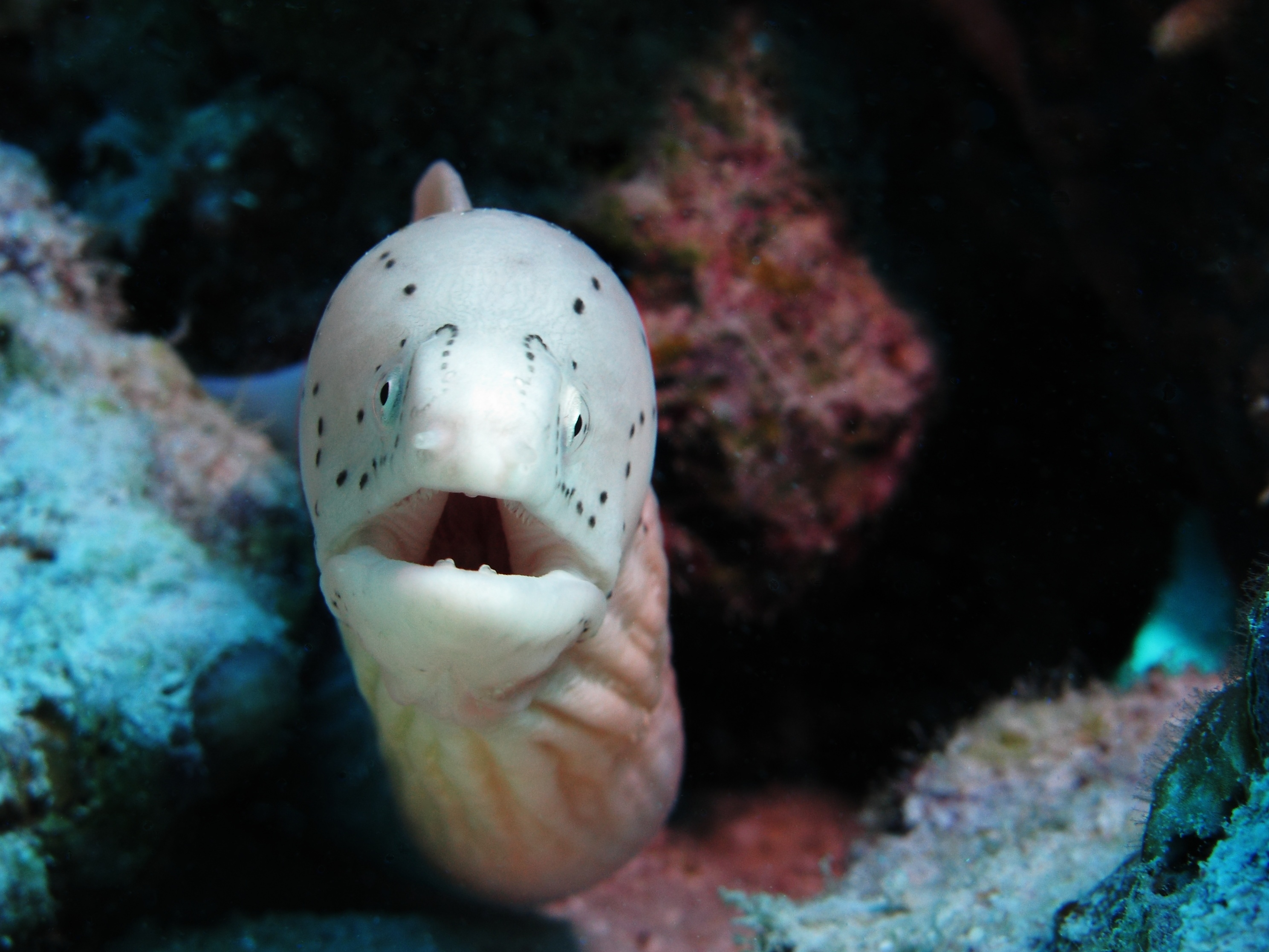 Peppered moray (Gymnothorax griseus) at Siyul Kebira (near Hurghada, Egypt)